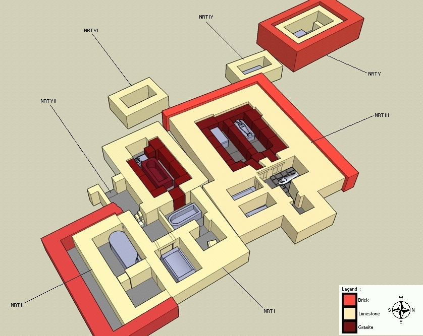 Restored overview of the royal necropolis at Tanis - 21st and 22nd dynasty of Egypt.